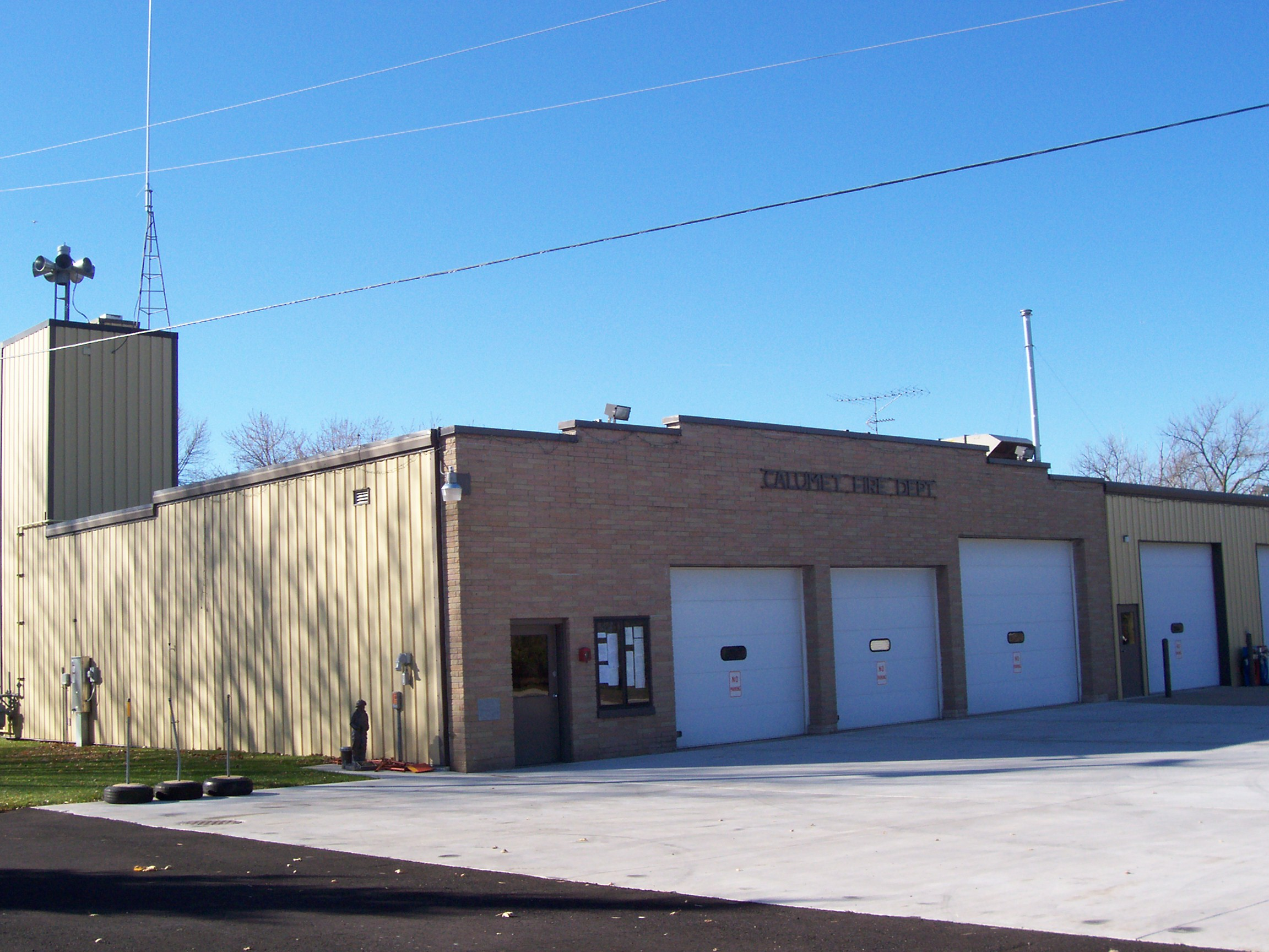 The fire station for the volunteer fire department for the town of Calumet, Wisconsin, USA near U.S. Route 151.